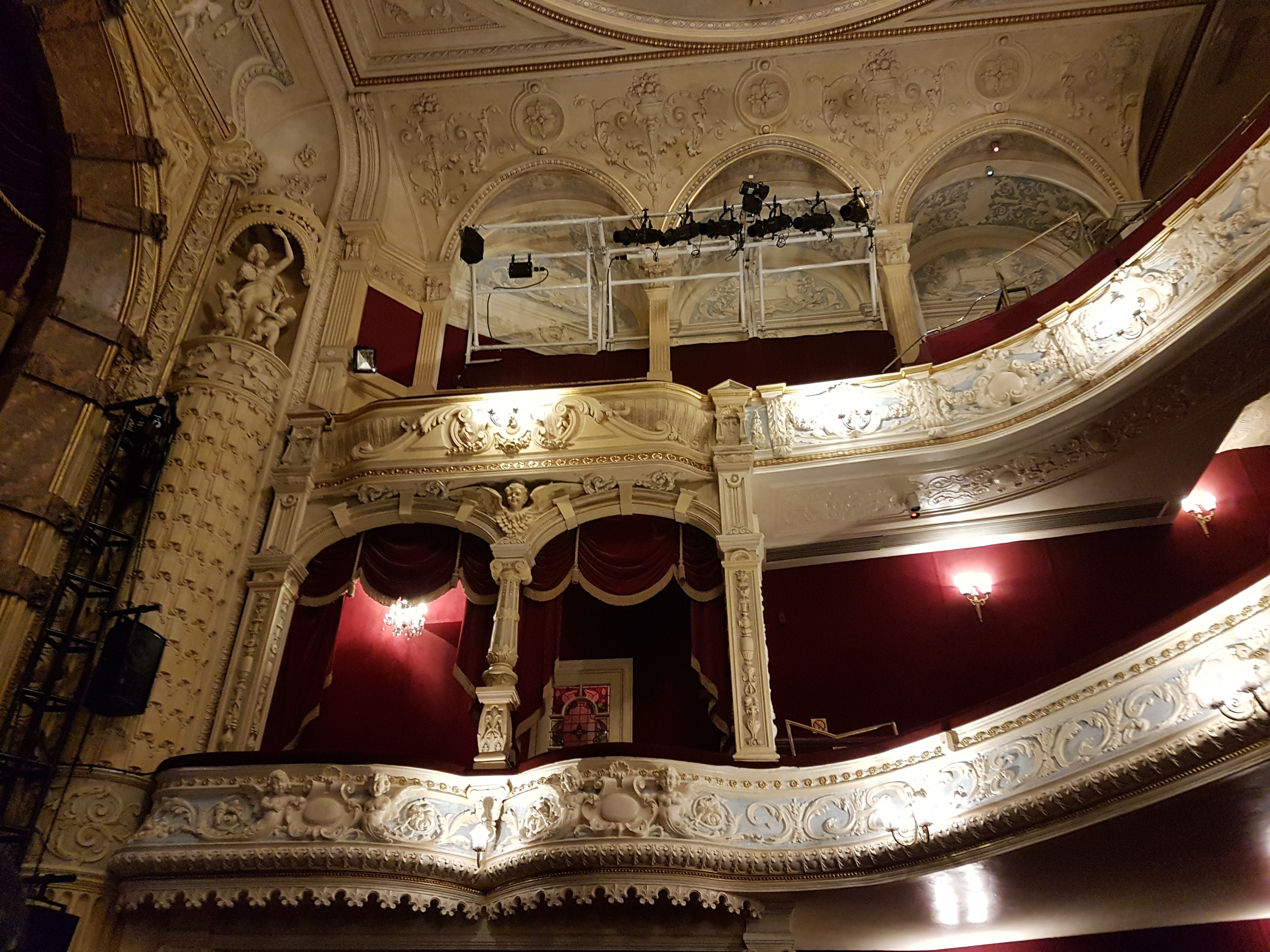 Richmond Theatre balconies